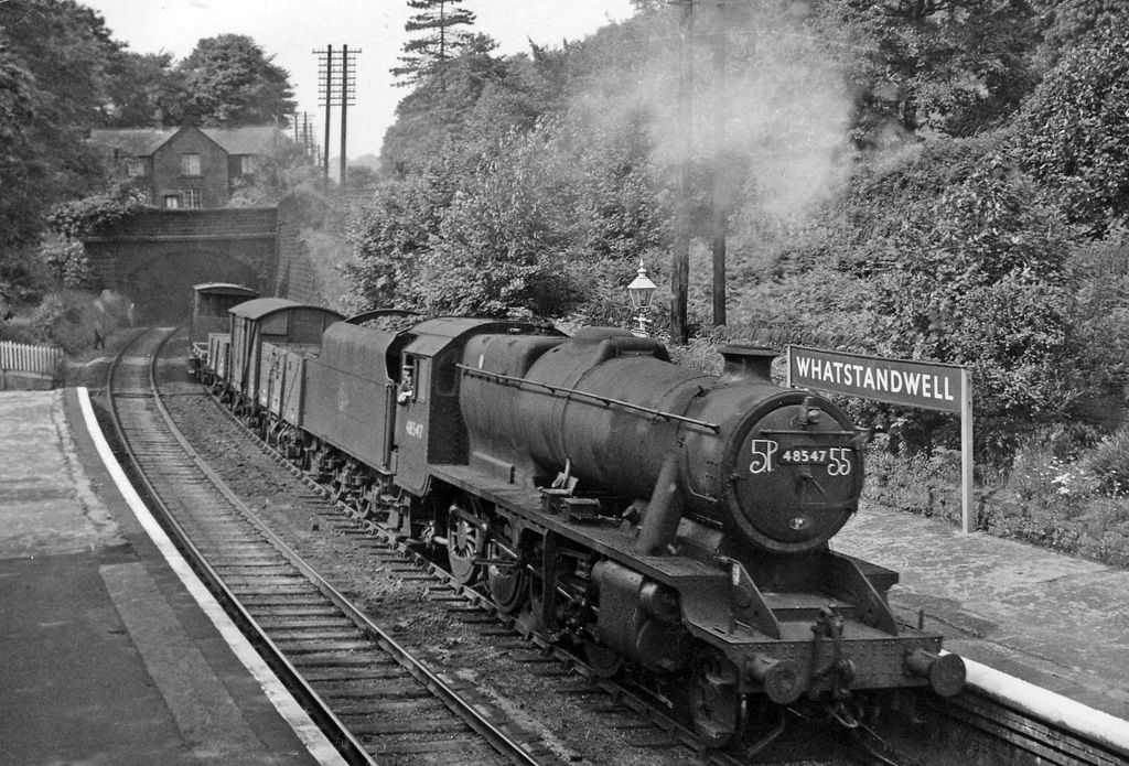 Whatstandwell Station with Up freight. View NW, towards Matlock, Buxton and Manchester; ex-Midland Peak main line, Derby - Matlock, Buxton and Manchester. The short Up Class H freight may be a Military Special, judging by the number chalked on the smokebox of Stanier 8F 2-8-0 No. 48547